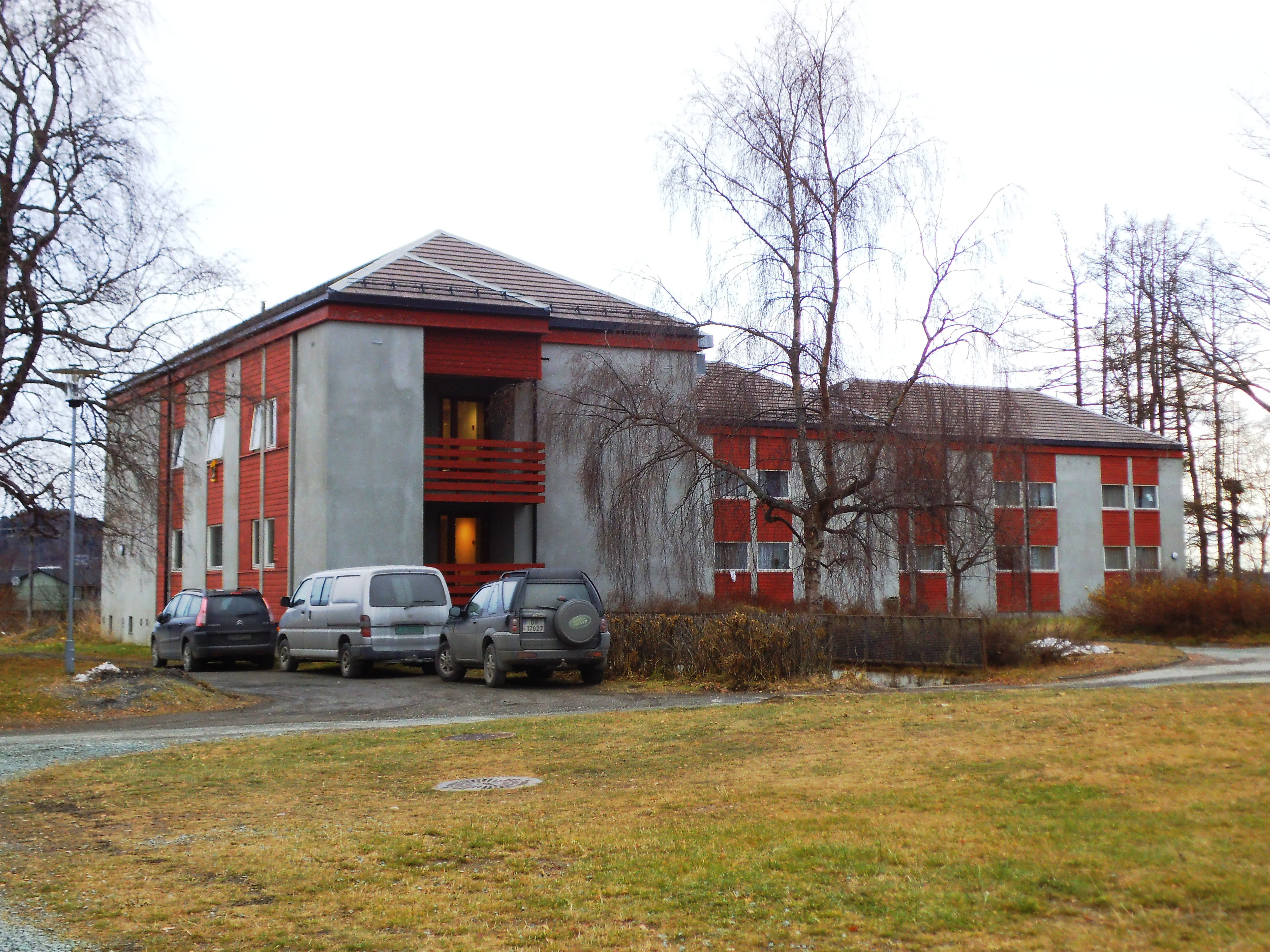 Trøndertun folkehøgskole. A Folk High School in Melhus.